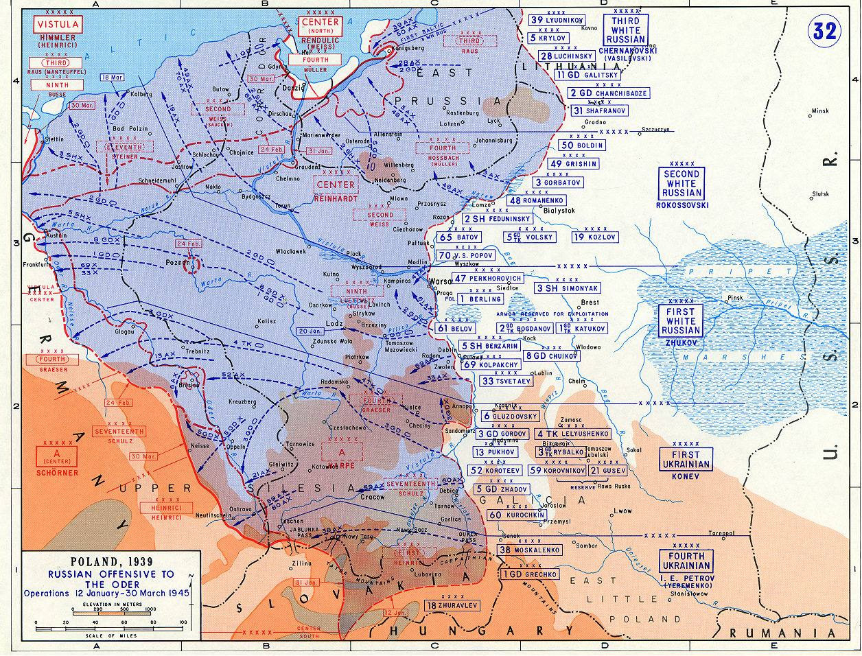 Poland 1945/Germany 1945. The Soviet offensive to the Oder, January-March 1945.